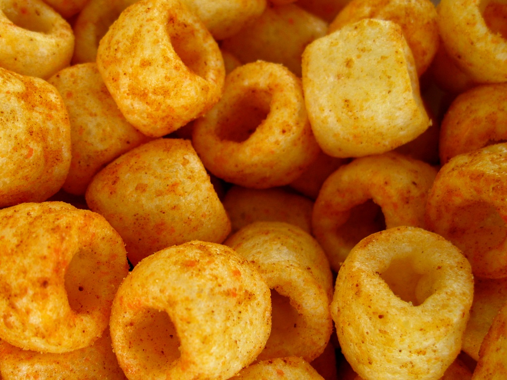 A close up shot of Smith's Tasty Toobs.